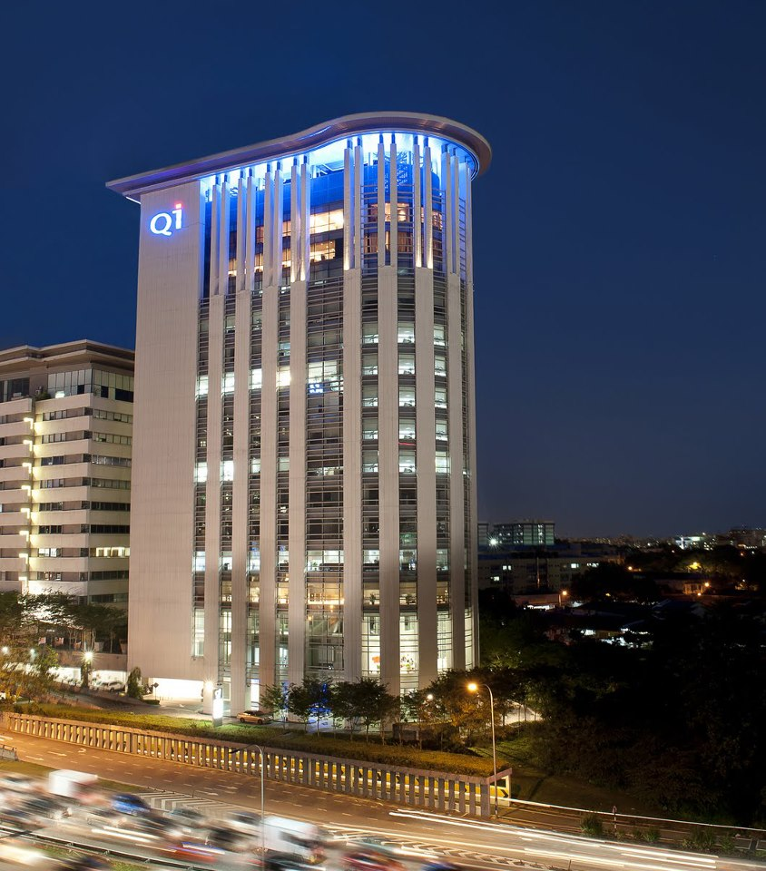 Qi Group HQ